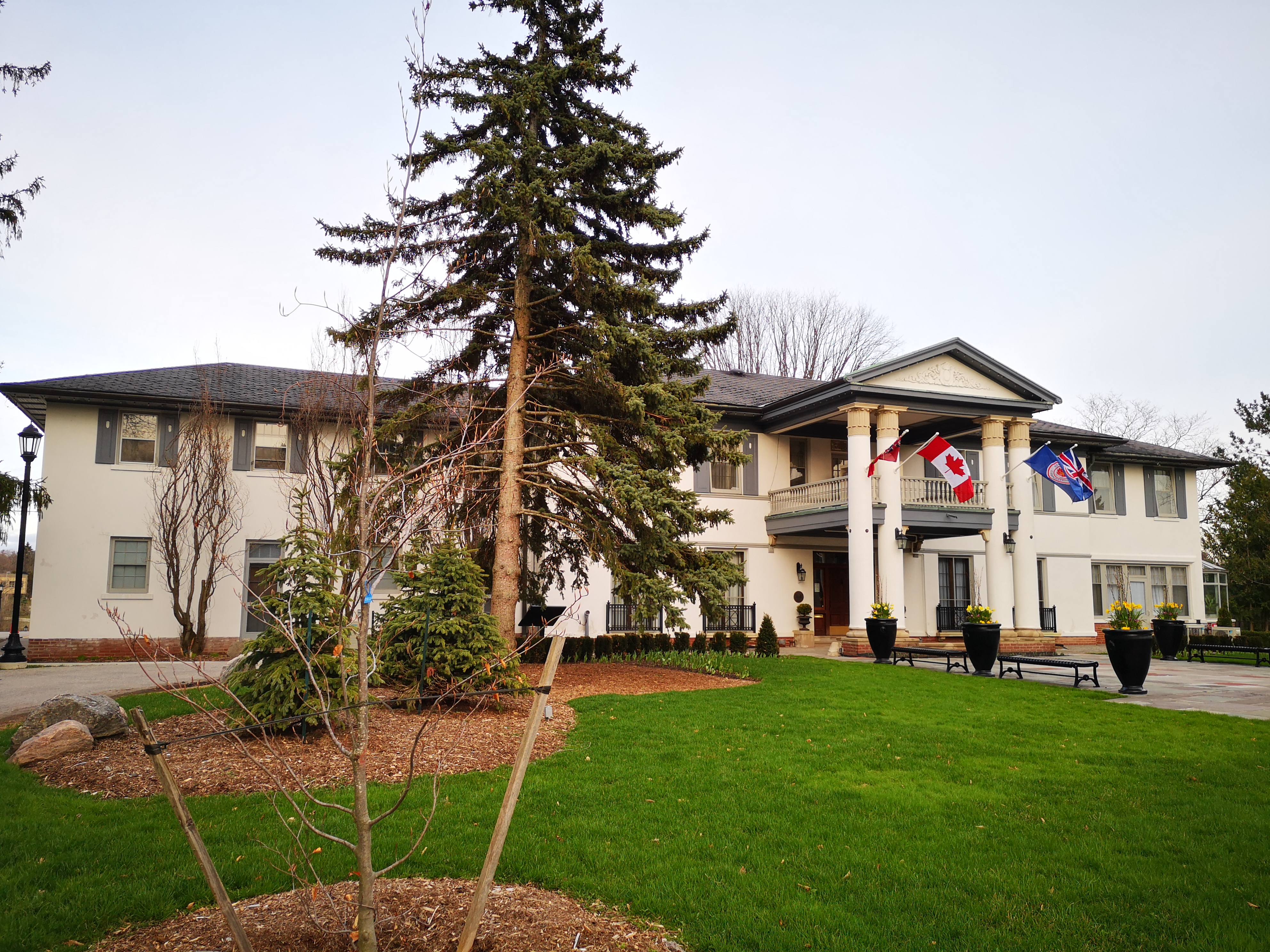 Heintzman House at 135 Bay Thorn Drive in the Markham portion of Thornhill. The building was erected in 1816.